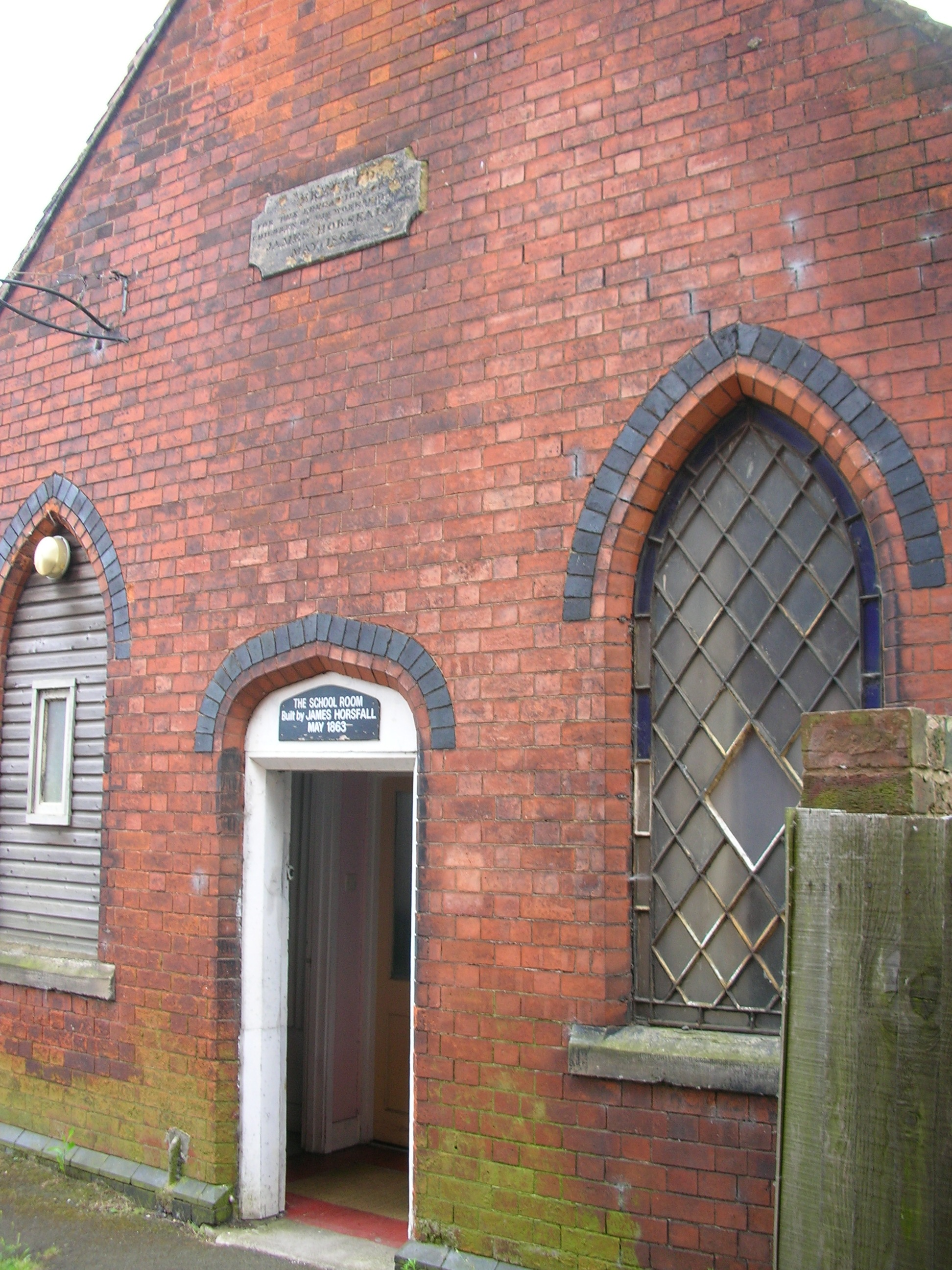 The school room built by James Horsfall in 1863 within Hay Mills factory in Small Heath, Birmingham, England. Historic manufacturer of patented steel wire used for piano wire and as the armoured sheath for the first transatlantic telegraph cable, 1866. ;Credits: Photographed by me 18 June 2006. Oosoom